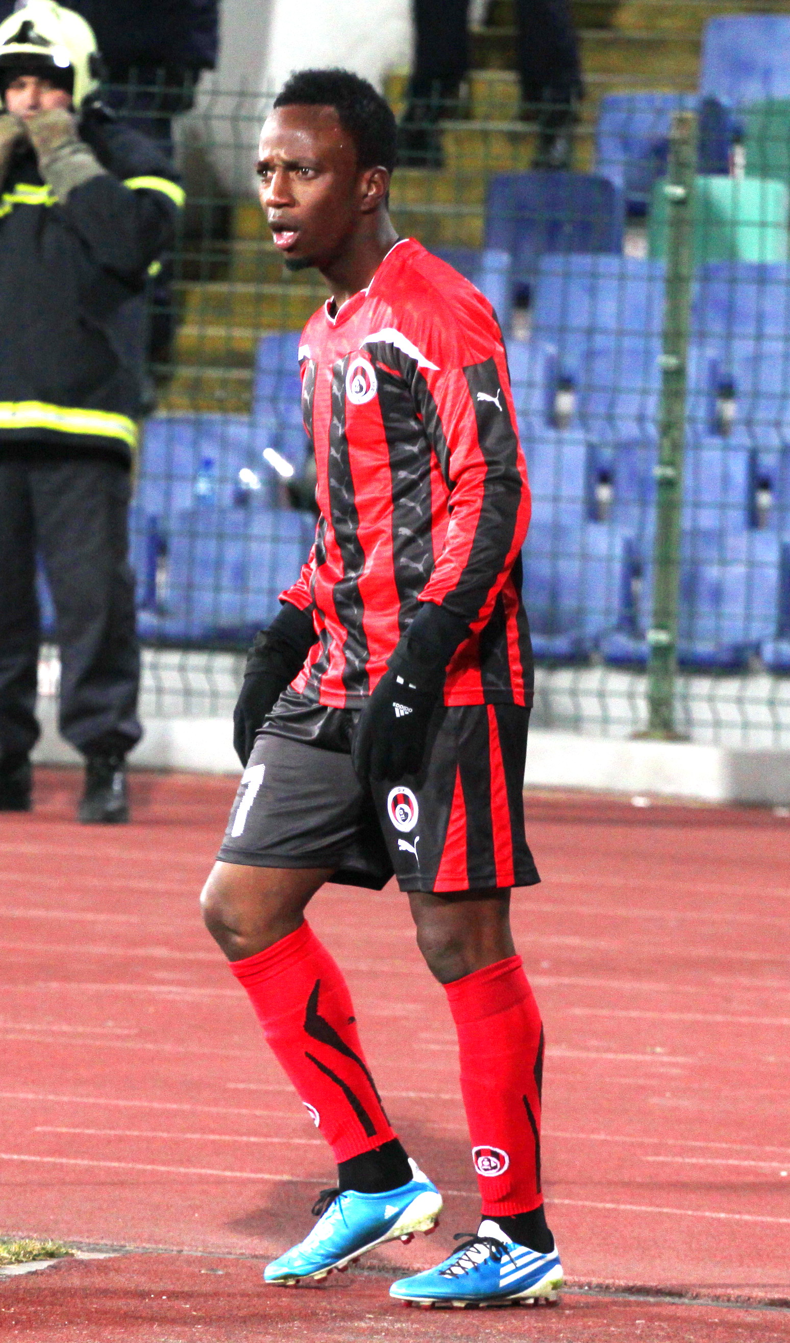 Jemal Pierre Johnson (born 3 May 1985 in Paterson, New Jersey) is an American footballer who currently plays for Bulgarian club Lokomotiv Sofia.